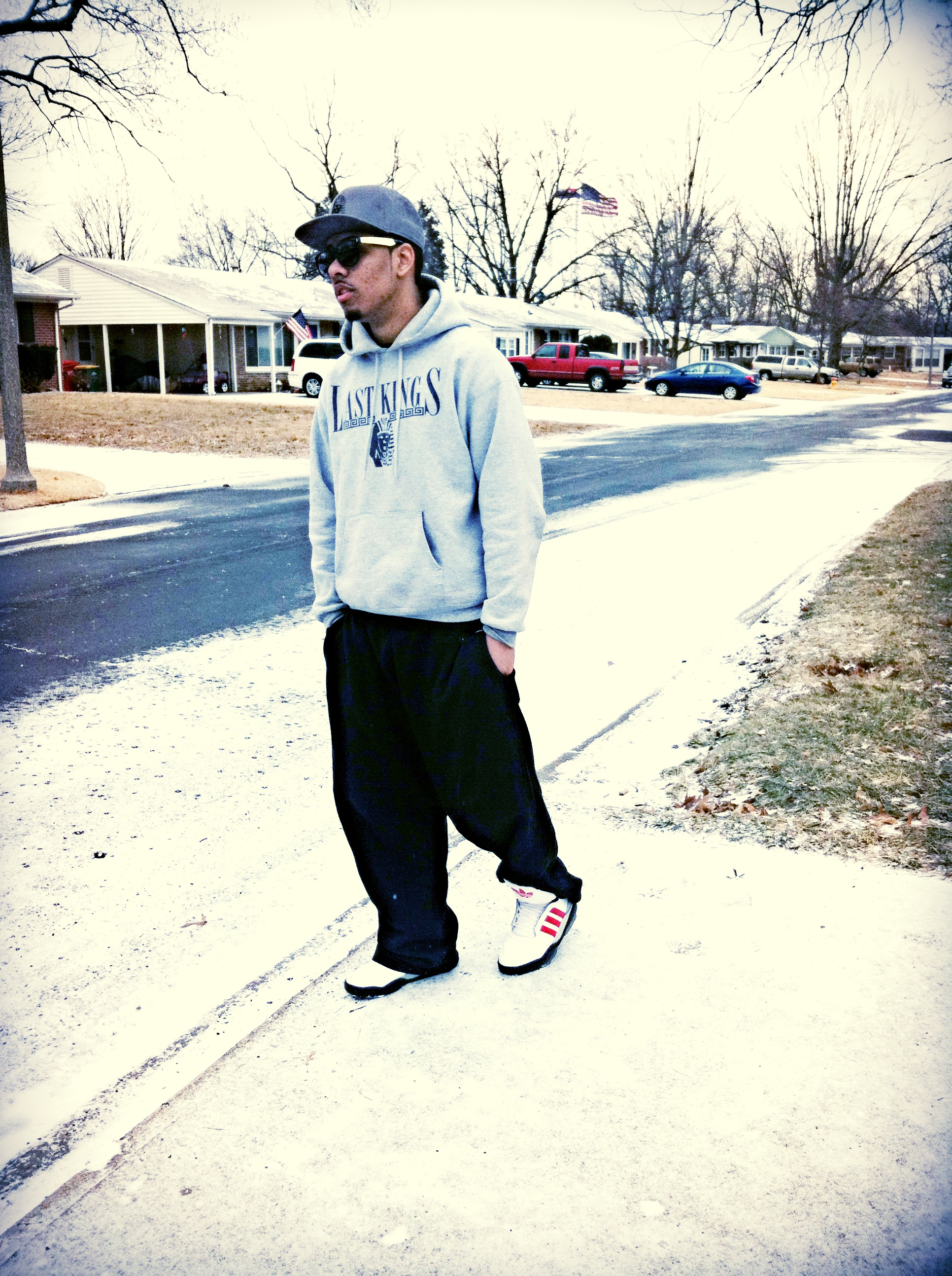 Demetrice walking in 2014.